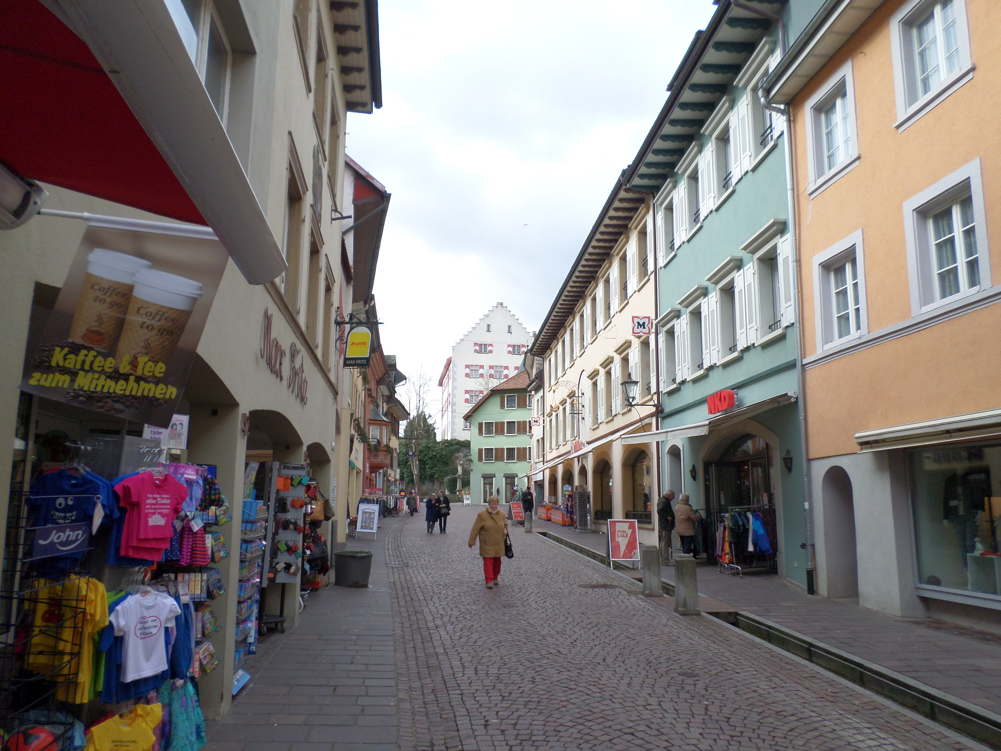 Tiengen Pedestrian Road, Waldshut-Tiengen, Waldshut, Baden-Württemberg, Germany